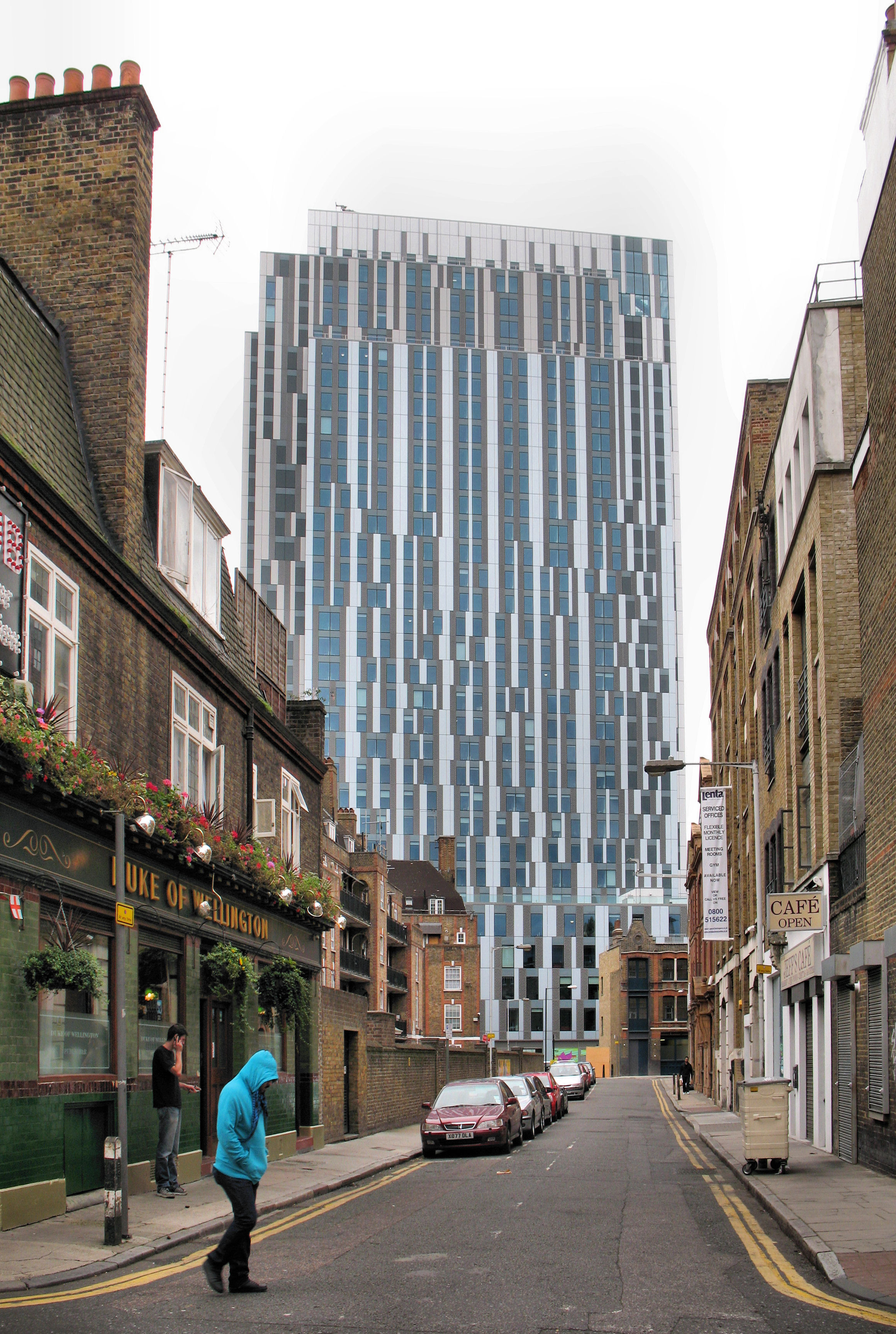 Nido Spitalfields/100 Middlesex Street, London, England